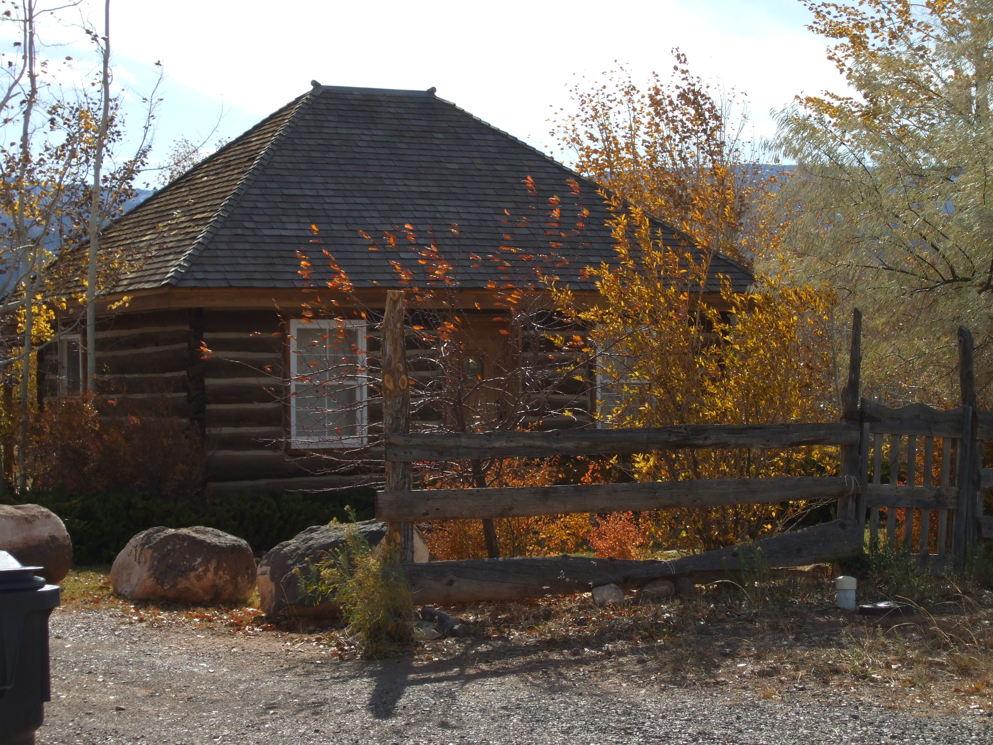 The Charles W. and Leah Lee House, a historic home in Torrey, Utah, United States.